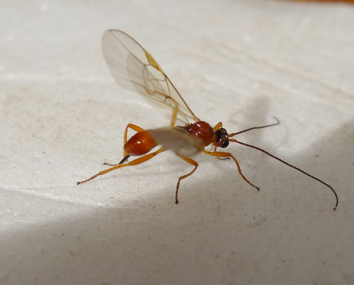 Cradley, Malvern, Worcs, SO7347